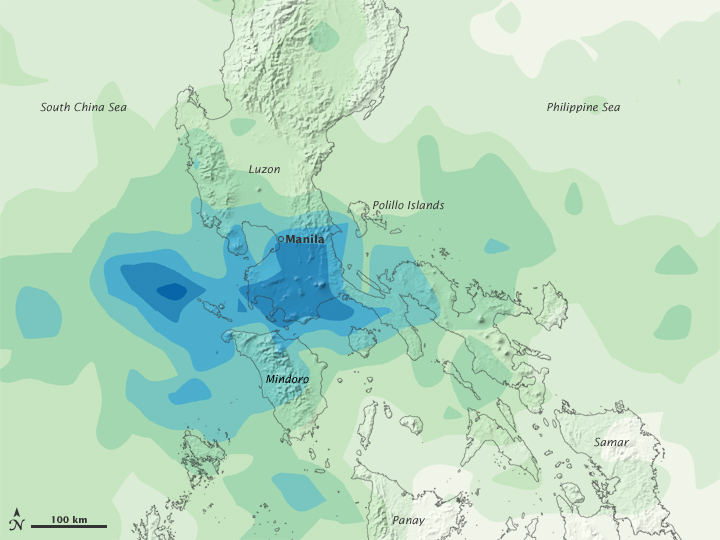 On September 26, 2009, Tropical Storm Ketsana dropped a month’s worth of rain in a matter of hours on the Philippine capital of Manila. Streets resembled rivers, covered by water that was chest high and still rising, according to news reports. Over the next few days, death tolls climbed from dozens to over 200, with more casualties expected as search and rescue efforts continued. As of September 28, more than 100,000 people had taken refuge in evacuation centers, and more than 330,000 were believed to be affected. The rainfall estimates shown in this image were produced by the near-real-time, multi-satellite precipitation analysis at NASA’s Goddard Space Flight Center. The analysis is based largely on observations from the Tropical Rainfall Measuring Mission (TRMM) satellite. The highest rainfall amounts—more than 600 millimeters (23.6 inches)—appear in blue. The lightest amounts appear in pale green. Gray shading indicates topography throughout the Philippines. Rainfall occurs over the entire region shown in this image. The heaviest pocket of rain appears off the west coast of southern Luzon, over the South China Sea. A large expanse of heavy rain stretches from that locality across southern Luzon. An area of heavy rain also occurs immediately south of the capital city. The flooding that struck the region in late September 2009 was the worst in more than 40 years. Officials declared a “state of calamity” in Manila and 25 provinces affected by the storm.